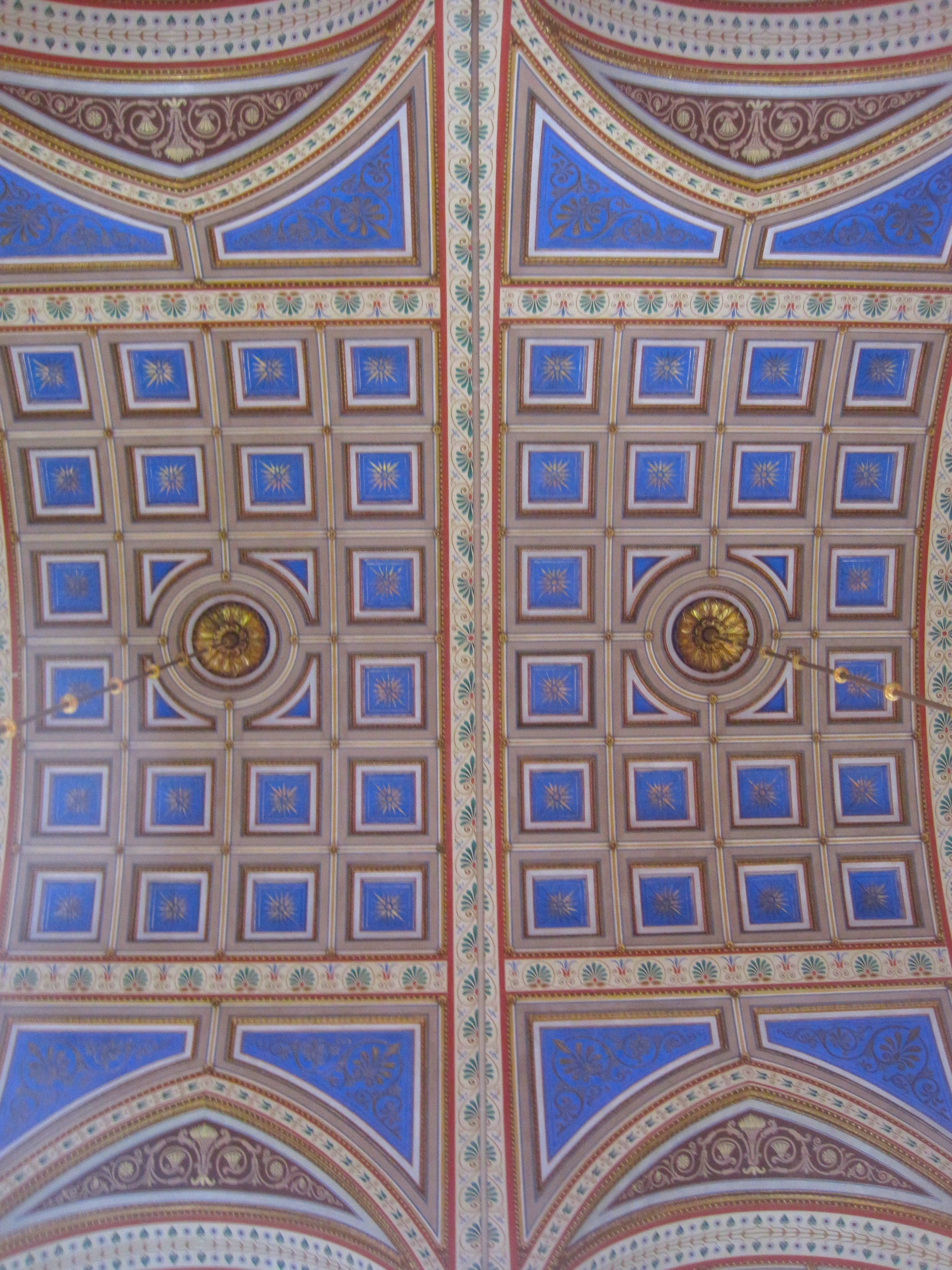 Part of the painted ceiling in the auditorium (by Svante Thulin) of the Lund University Main Building.